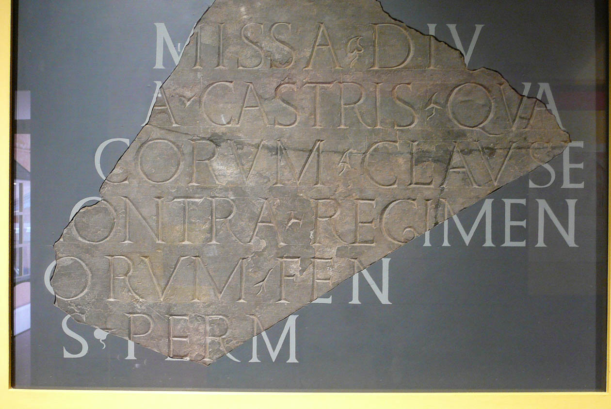 The market hall inscription from the Deva fortress Português do Brasil: Inscrição do salão do mercado